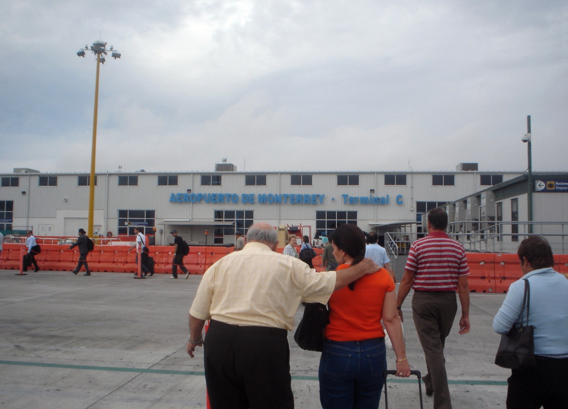 Monterrey International Airport's Terminal C